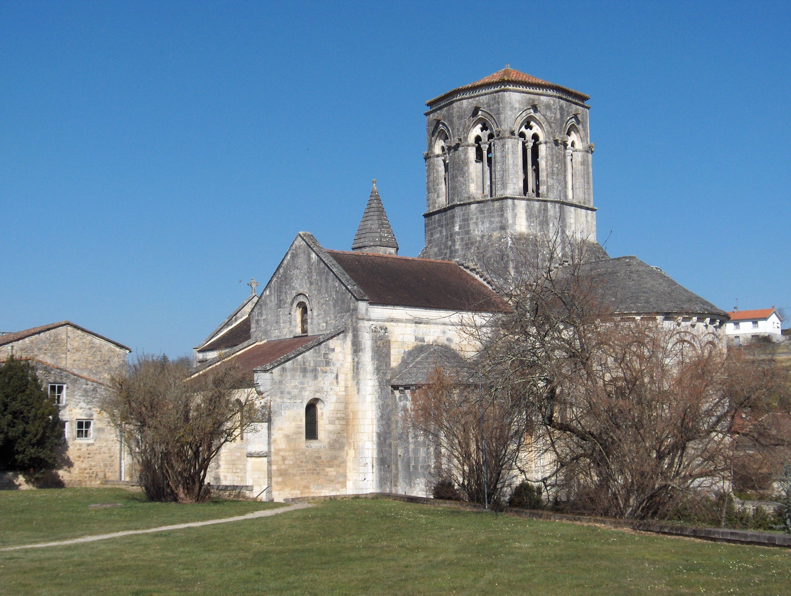 Church of Mouthiers-sur-Boëme - Charente - France - Europe